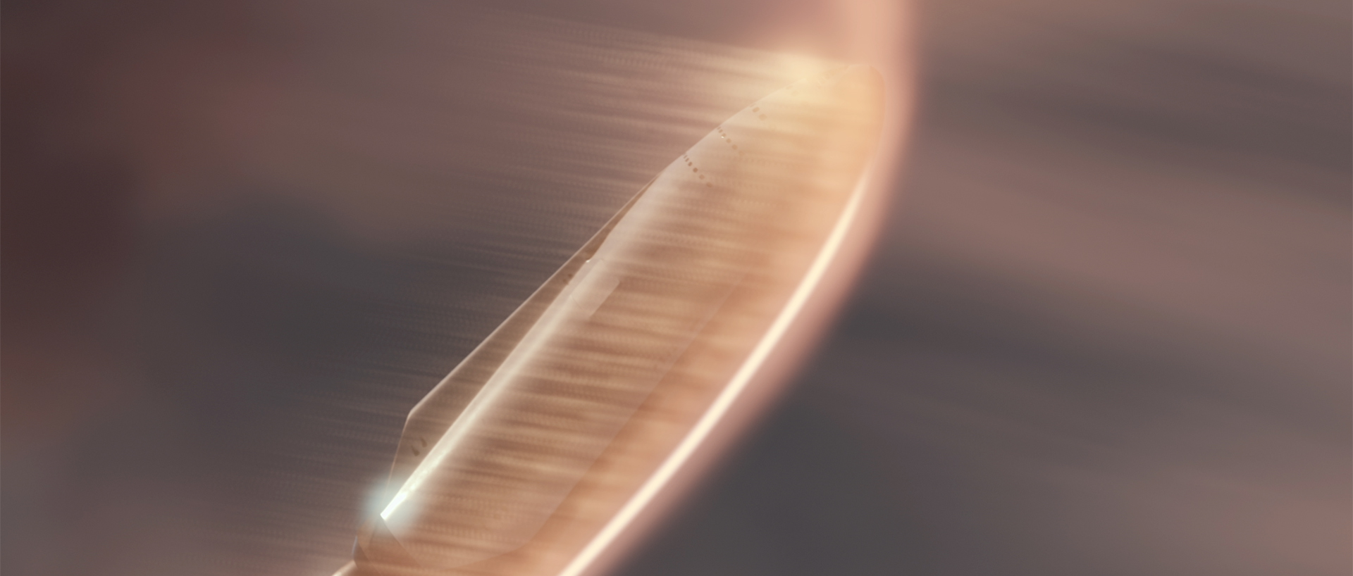 Interplanetary Spaceship, during Mars atmospheric entry.